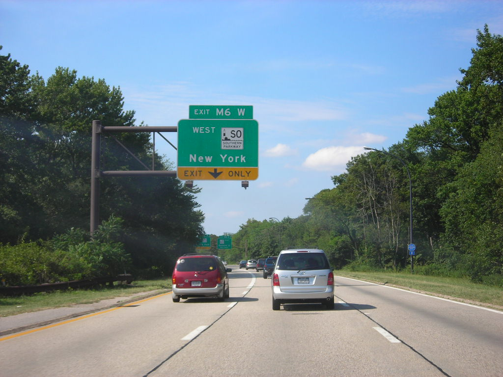 Meadowbrook State Parkway at the junction with the westbound Southern State Parkway.